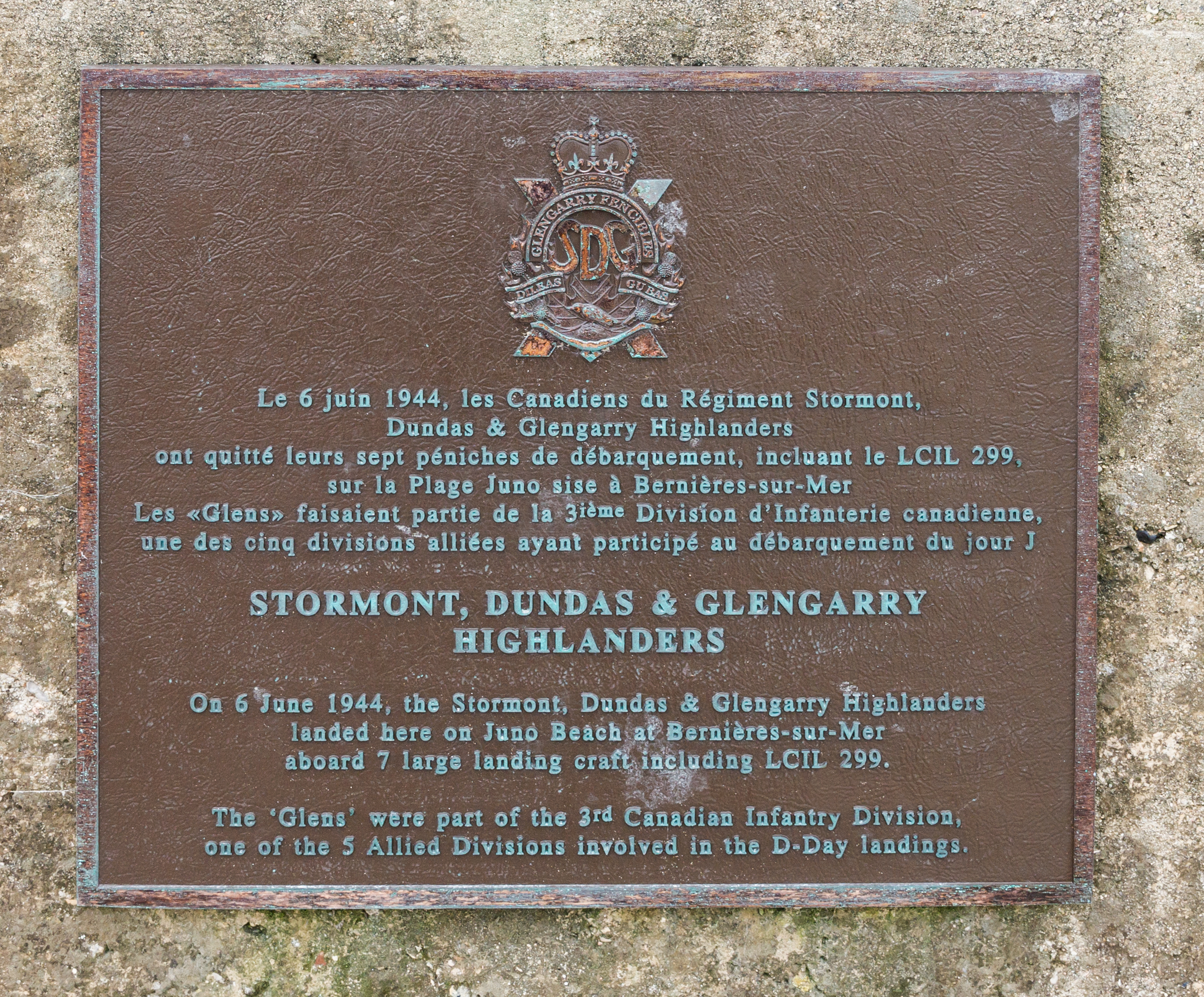 Plaque to the Stormont, Dundas and Glengarry Canadian Highlanders, Bernières, Calvados, Normandy, France